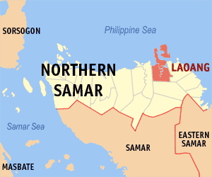 Map of Northern Samar showing the location of Laoang